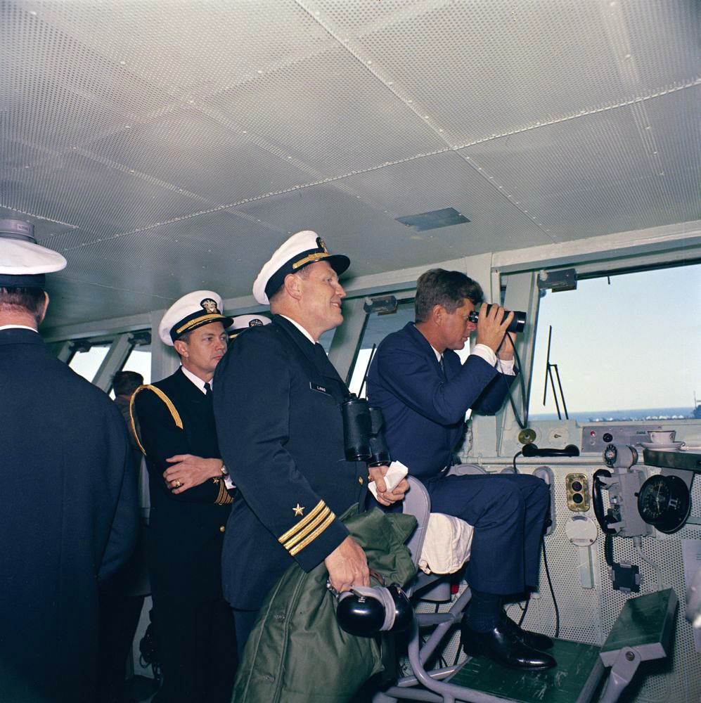 President views Atlantic Fleet Manuevers. Naval Aide Commander Tazewell Shepard, Commander Lang, President Kennedy. Aboard the USS Enterprise.